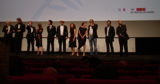 The team of the film "Eyes Wide Open" on the day of its presentation at the Cannes Film Festival, 2009